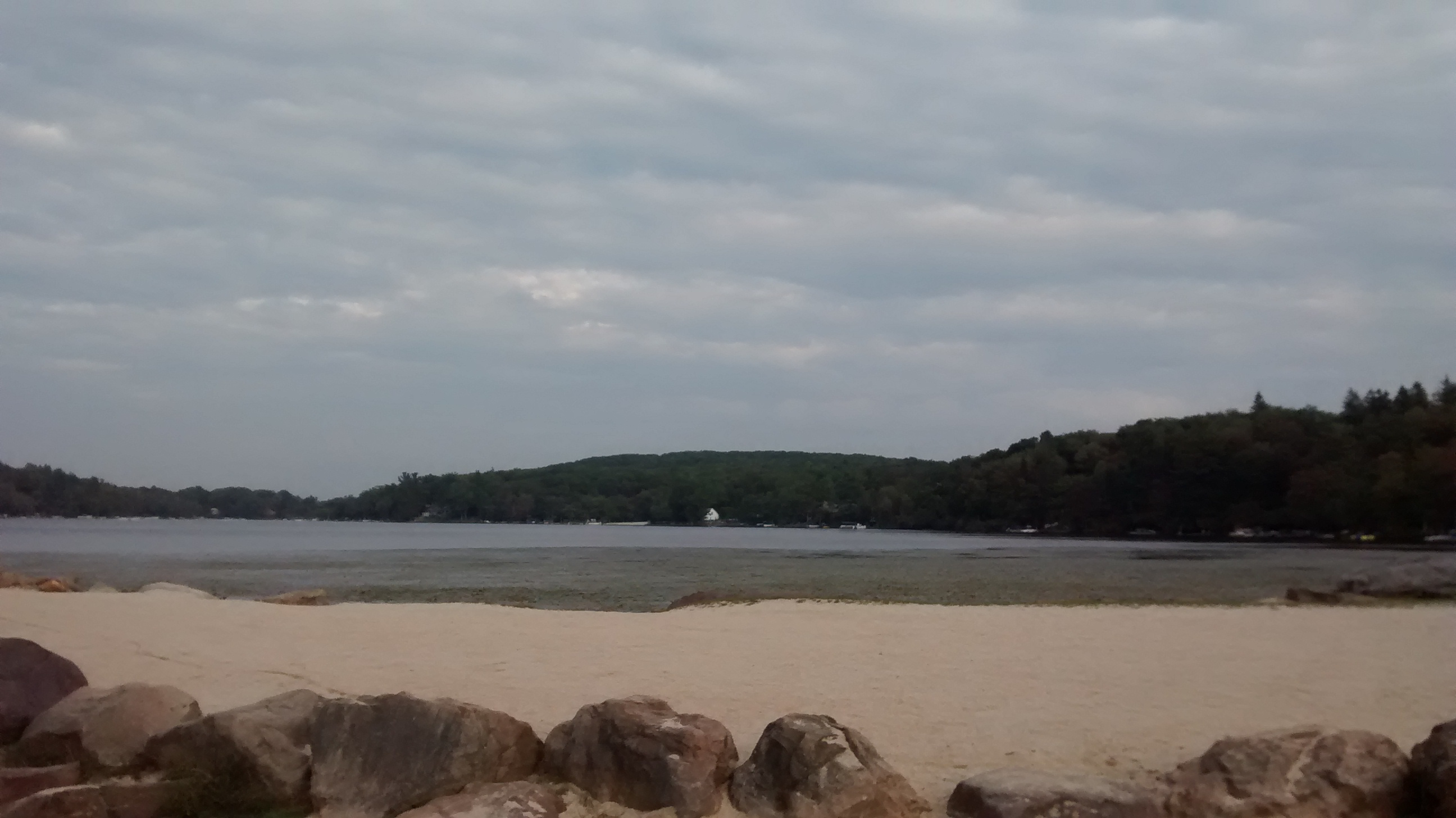 Lake Harmony in Kidder Township, PA